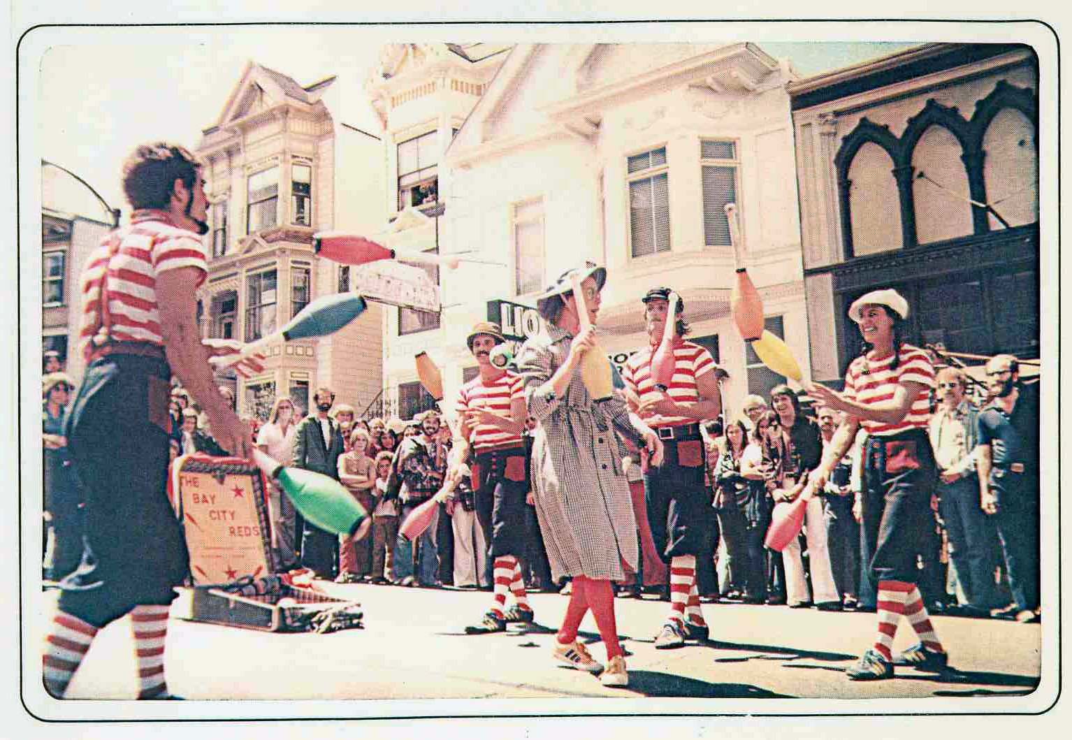 The Bay City Reds juggling troupe at the Castro Street Fair, San Francisco, 1975. Performers are, from left: Dan Mankin, Billy Kessler, Diana ??? Don Forrest, Merle Goldstone. On Castro St, near 18th St, San Francisco CA USA